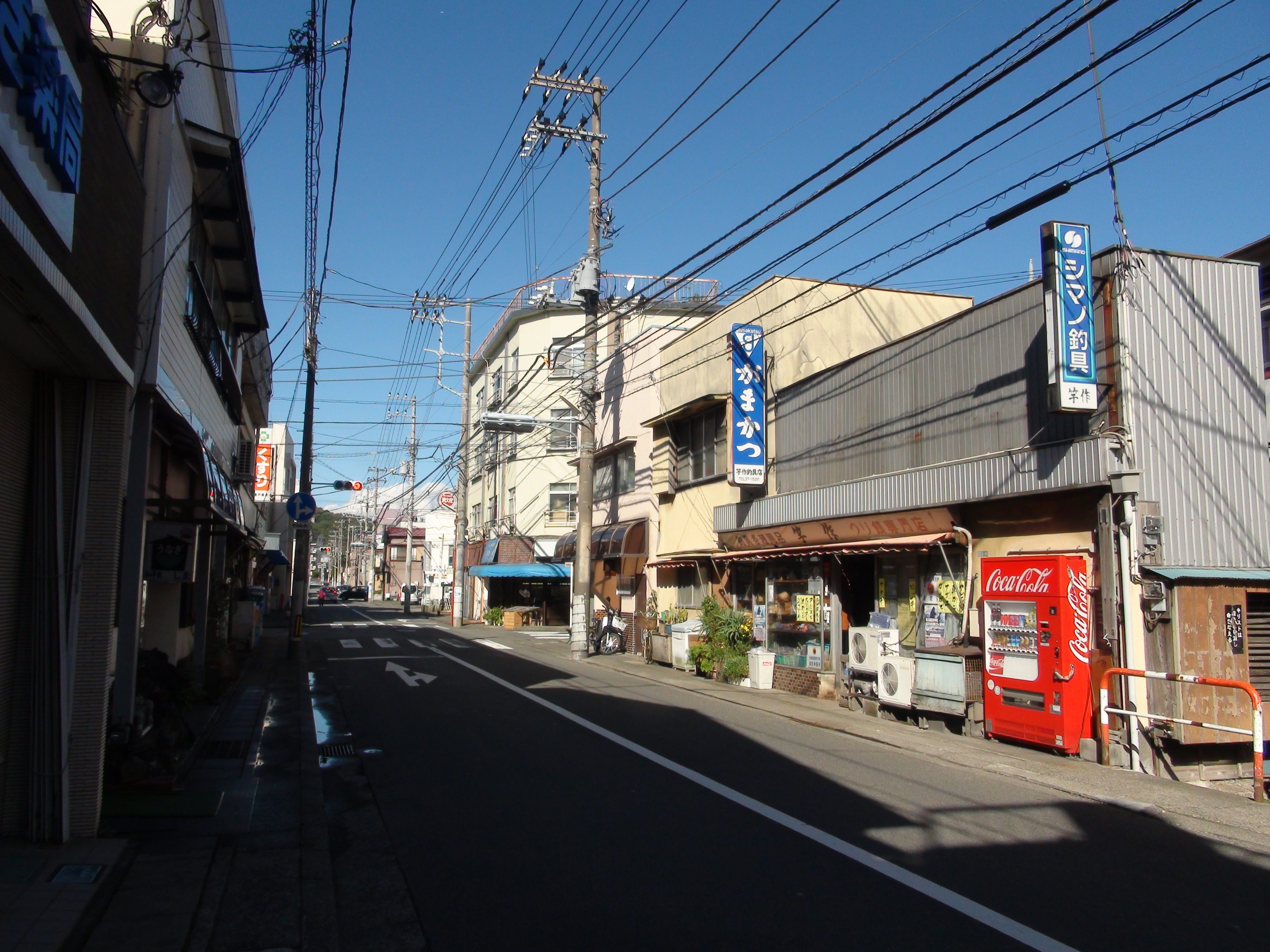 Jono-ike pond street. Ito City.